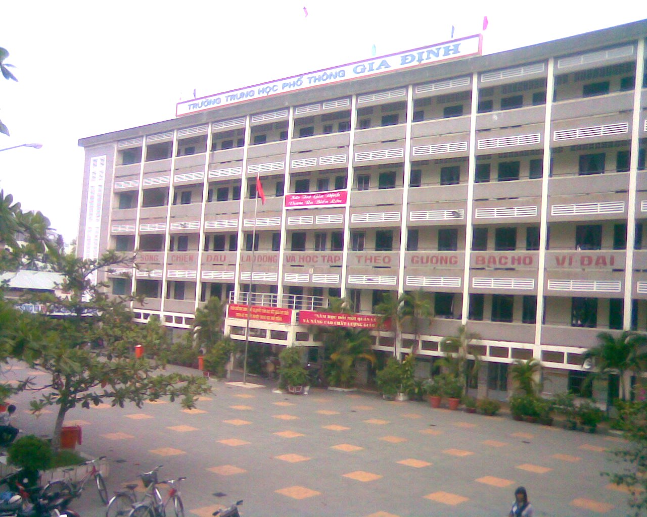 Landscape of gia định highschool vietnam